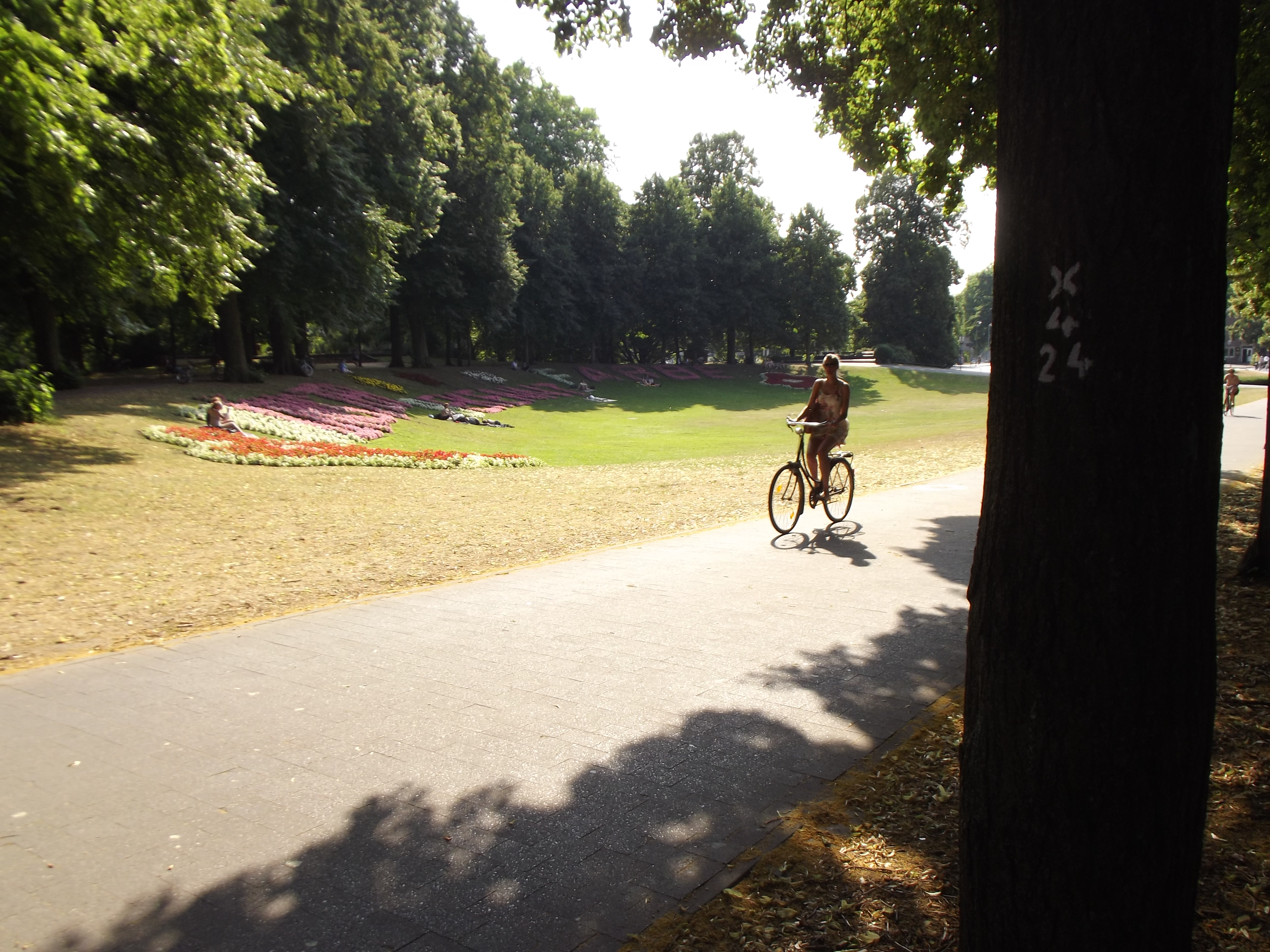 The photograph depicts a characteristic part of Muenster in Westphalia, decorated by large flower arrangements